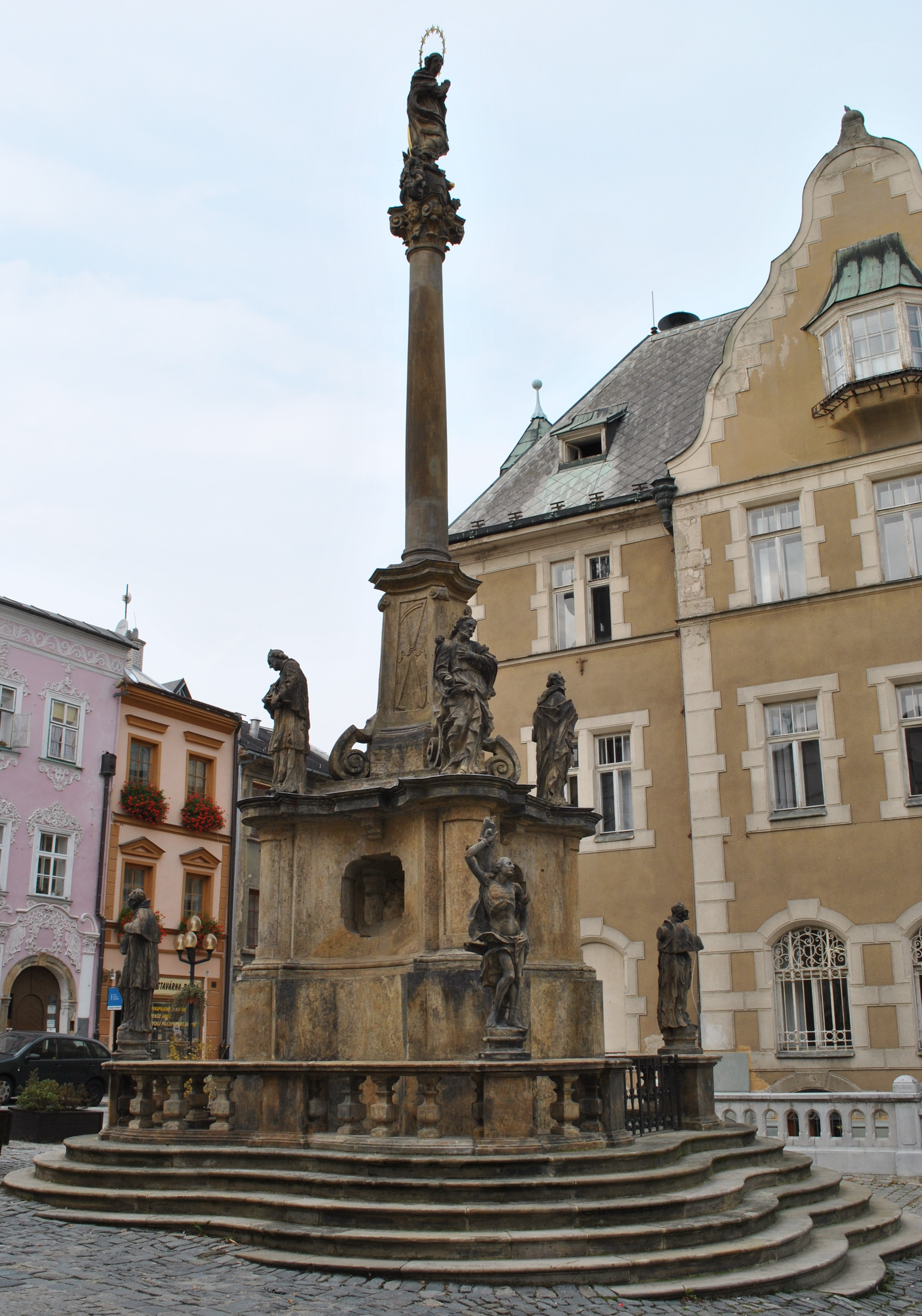 The Marian Column in Šumperk